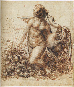 Drawing of Leda and the Swan